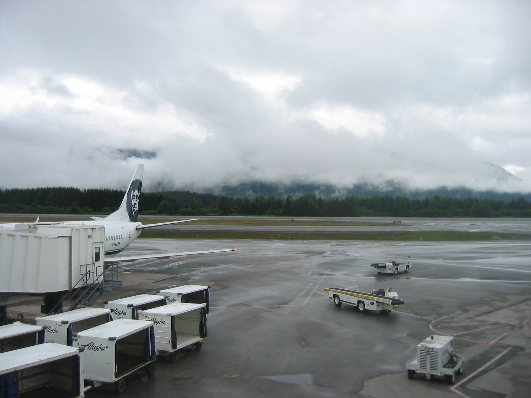 Low clouds drift along Douglas Island behind the Juneau International Airport in Juneau, Alaska.